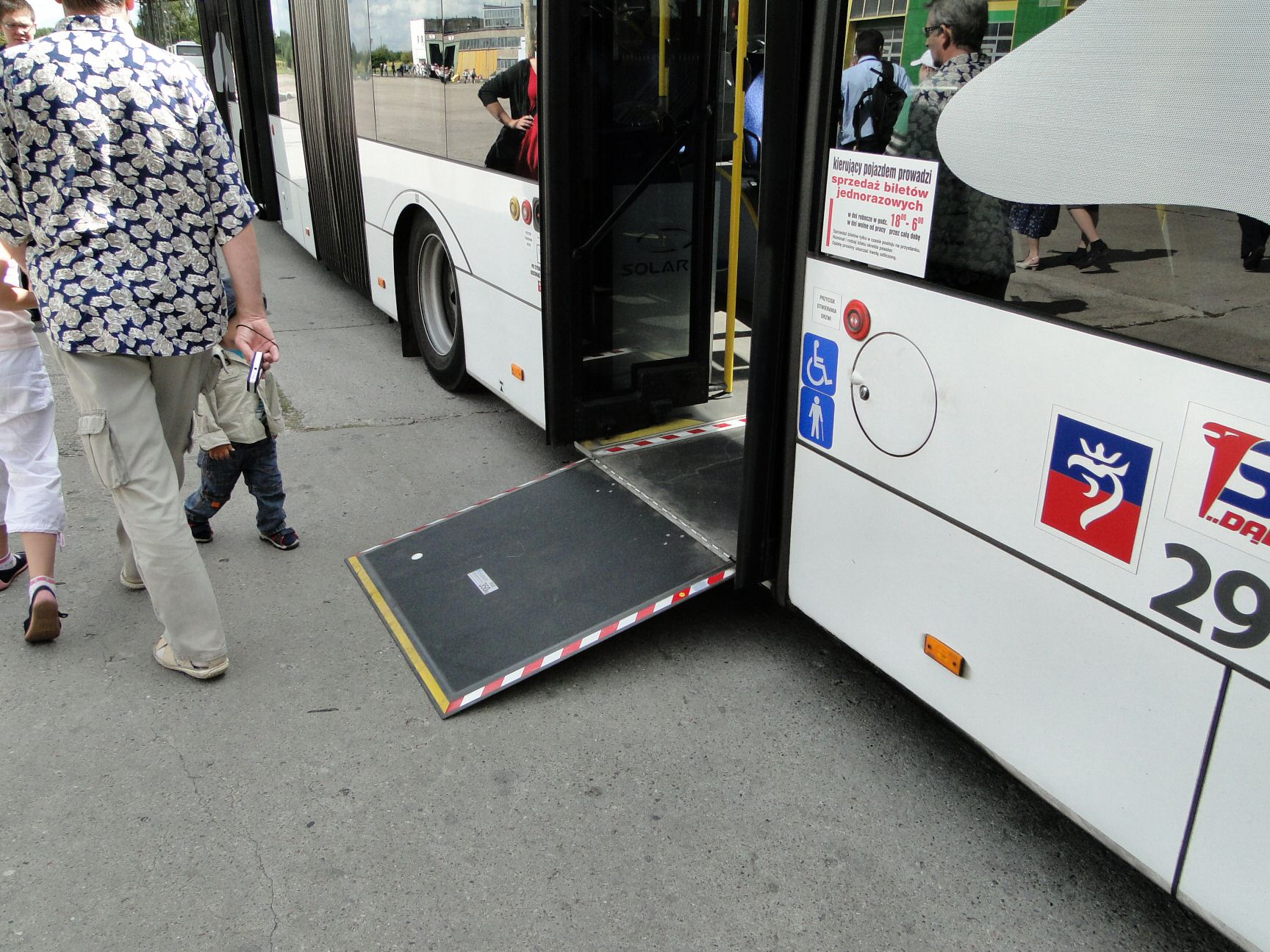 Solaris Urbino 18 city bus (#29...) in Szczecin, Poland. Built 2009, SPA Dąbie from Szczecin operator.